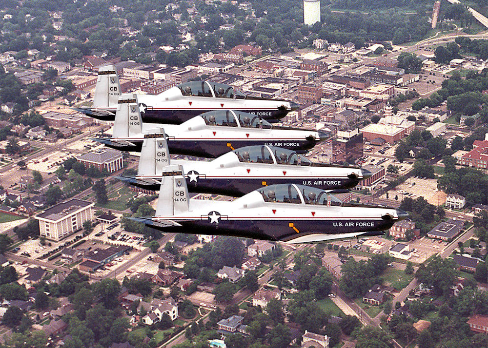 14th Operations Group T-6 Texan IIs over Columbus Mississippi